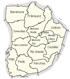 Barrios of Morovis, Puerto Rico locator map